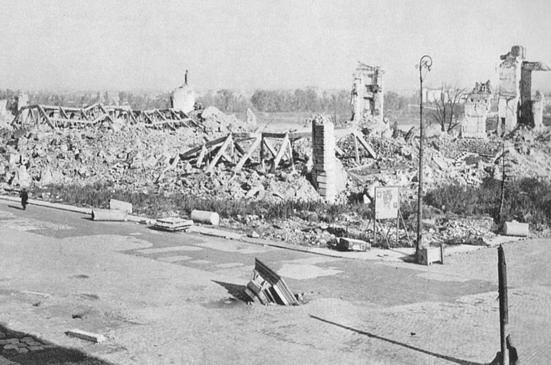 Remains of the Royal Castle in Warsaw, capital of Poland - blown up by German forces on 27 november 1944, according to Adolf Hitler`s order. Photo done in the middle of 1945.